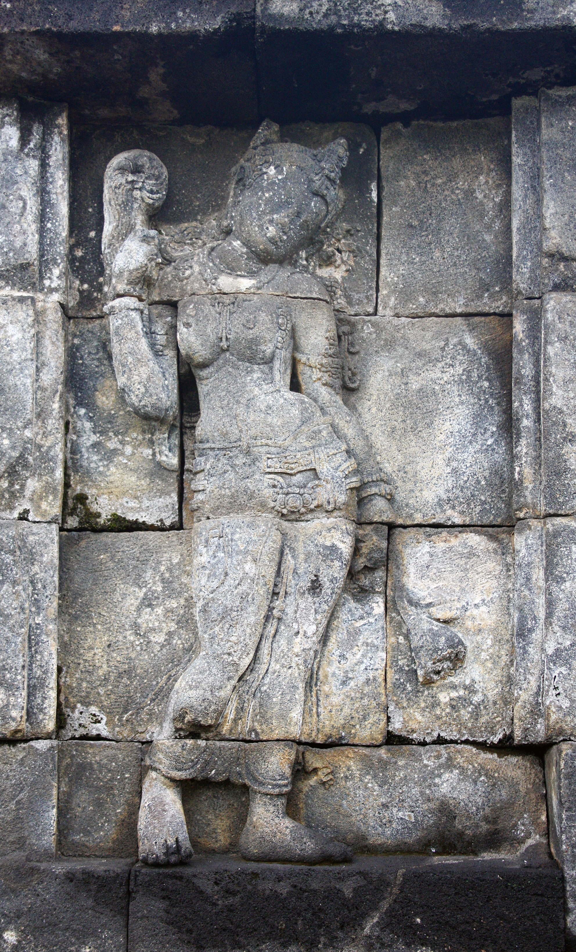 A female figure probably portrayed Tara or Apsara holding chamara (fly-whisk) and utpala (blue lotus). Bas-relief of lower outer wall of 8th century Borobudur, Central Java, Indonesia.